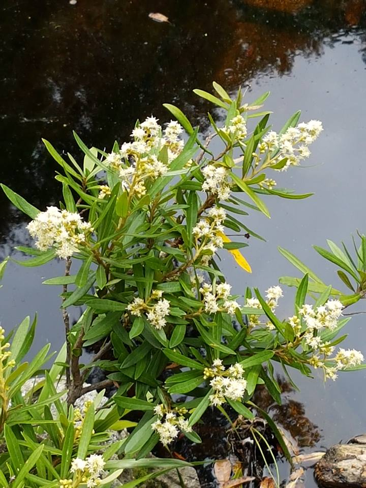 Brachylaena neriifolia (L.) R.Br. - Blaaukrantz Pass nr Nature's Valley, South Africa